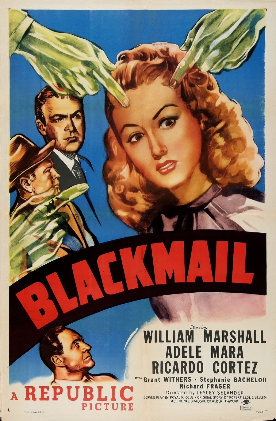 Poster fort he 1947 film Blackmail. The item has no copyright markings on it as can be seen in the links above. At bottom is Country of origin USA and 33133. These look to be associated with the printing of the poster.